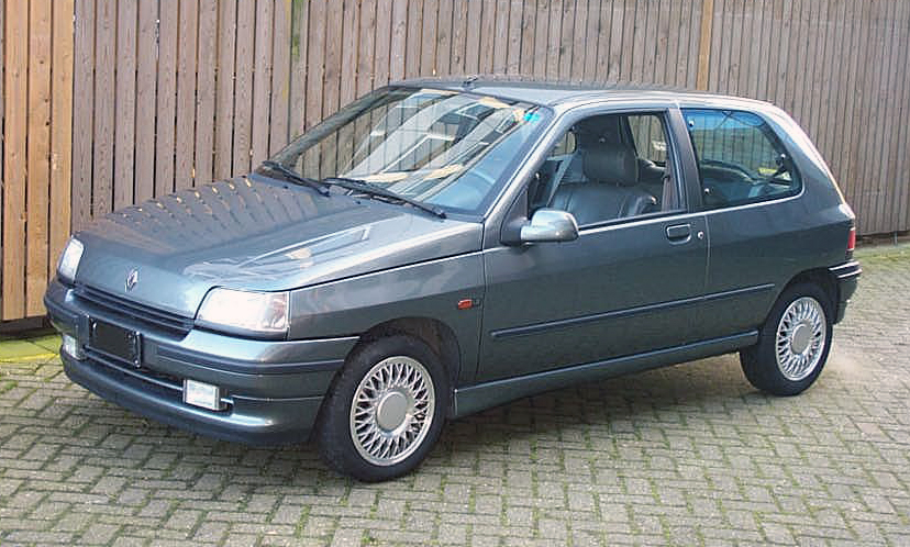 1993 Renault Clio Baccara 1.8i (1794cc), the luxury version of the Clio. Leather interior and power everything, this car was sold new in Italy.